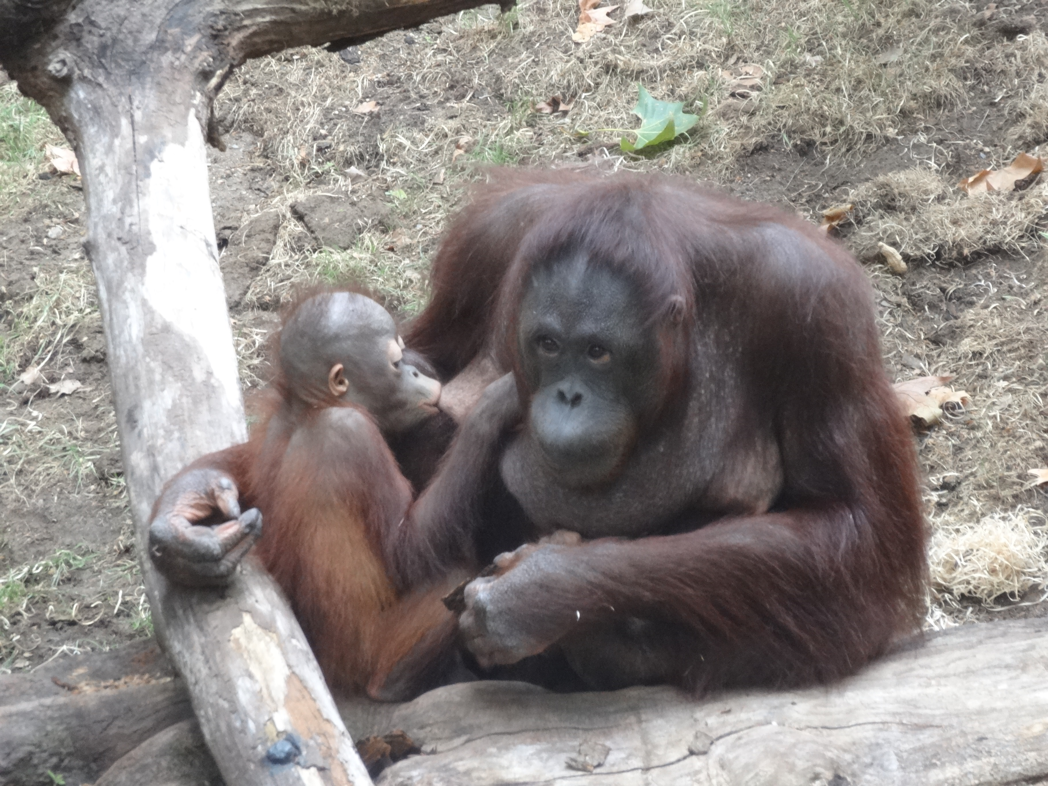 Breastfeeding orangutan at the Barcelona Zoo, september 2015